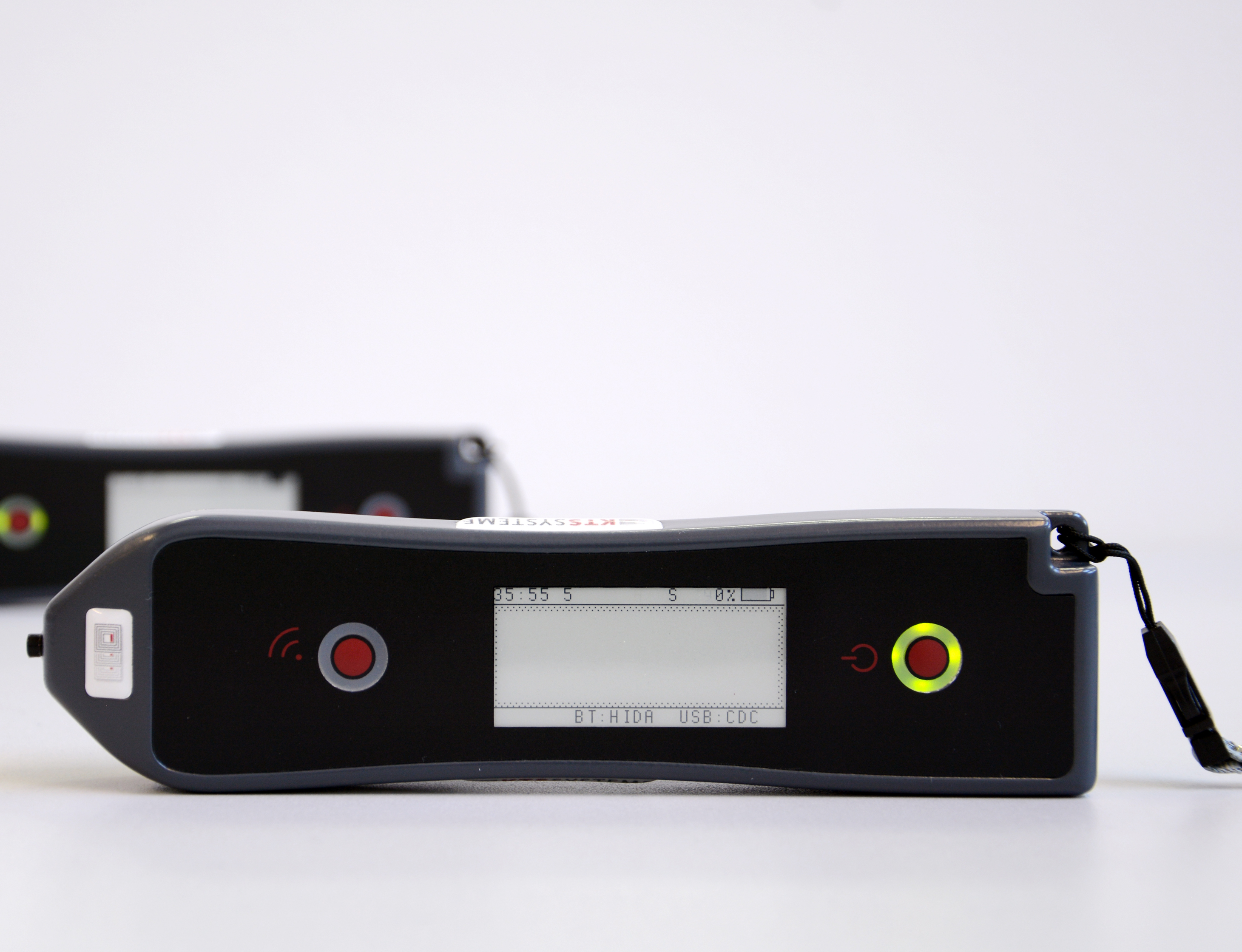 RFID Bluetooth Reader for NeoTAG - KTS